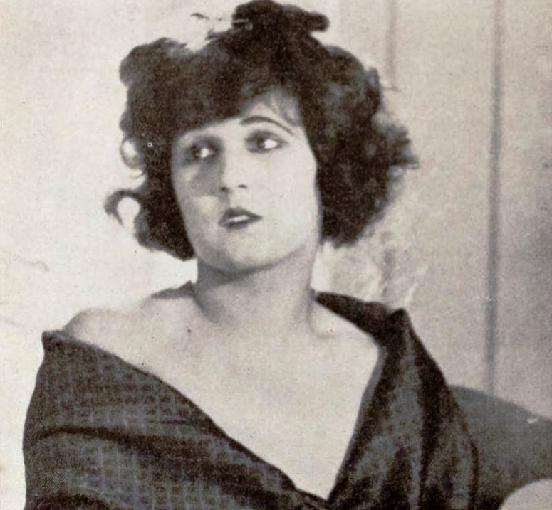 Still for the American western short film Streak of Yellow (1922) with Marion Aye, on page 90 of the October 22, 1921 Exhibitors Herald.